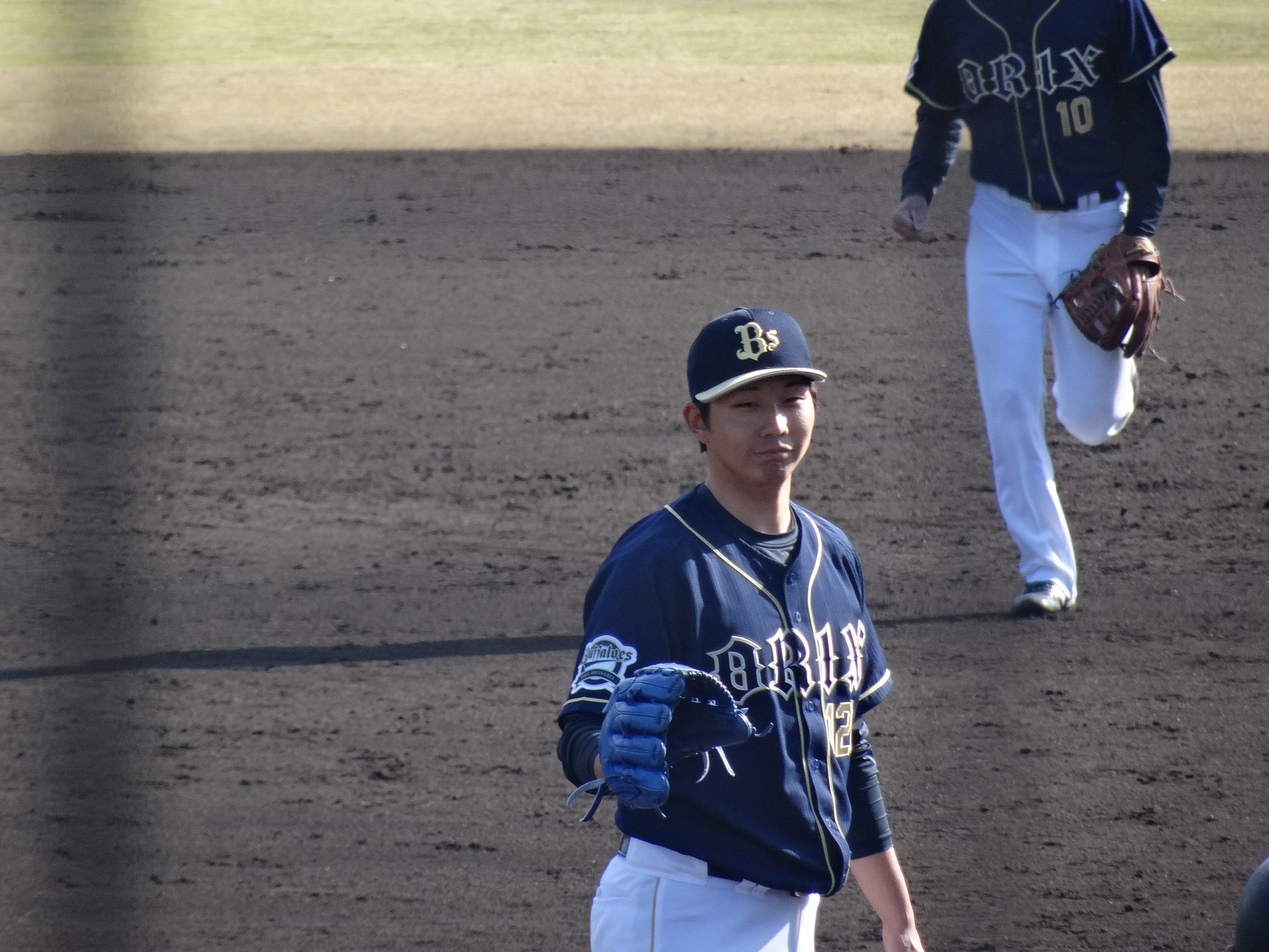 Takayuki Tsukada, pitcher of the Orix Buffaloes, at Hanshin Naruohama Baseball Ground